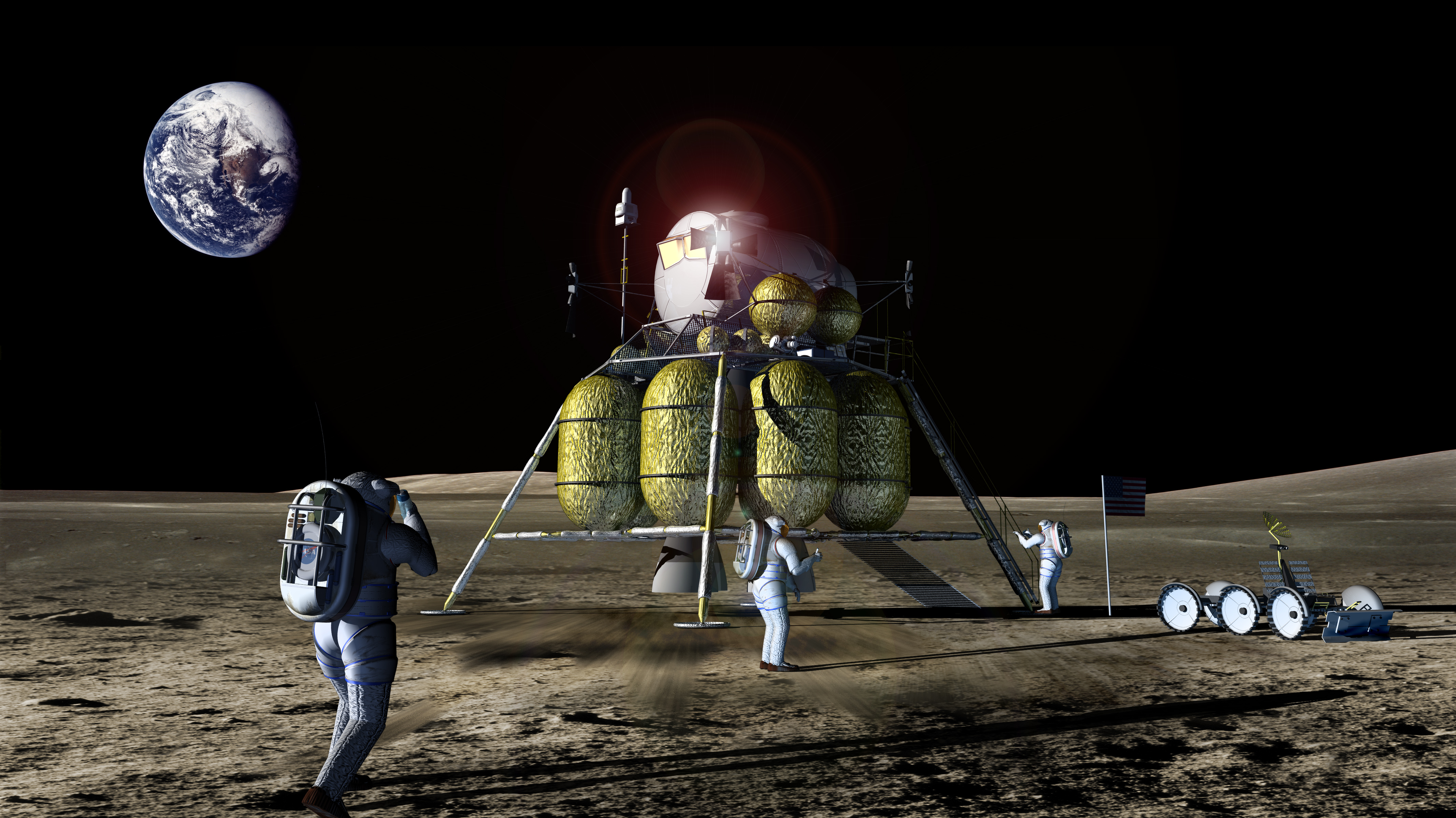 Astronauts on the moon, outside the CEV's LSAM.